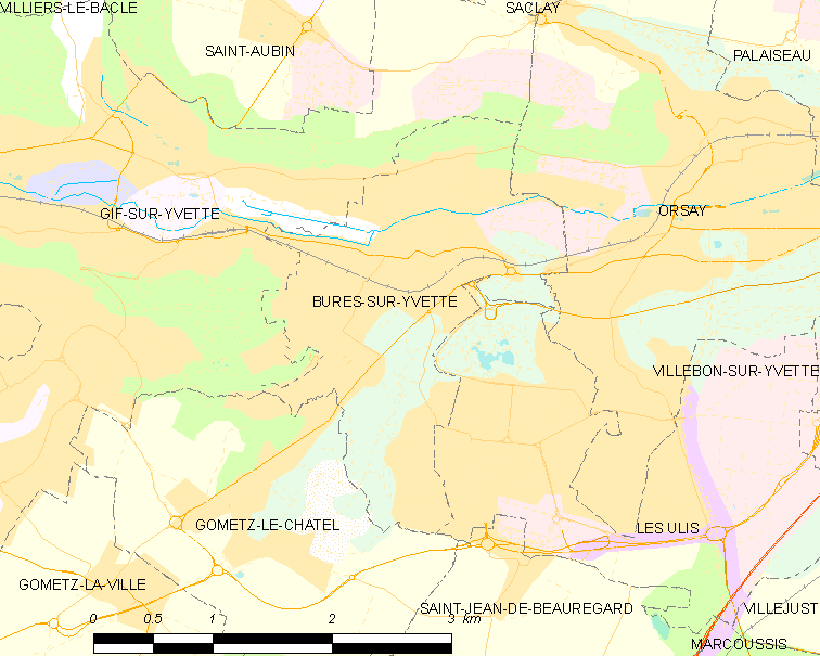 Map of French municipality Bures-sur-Yvette